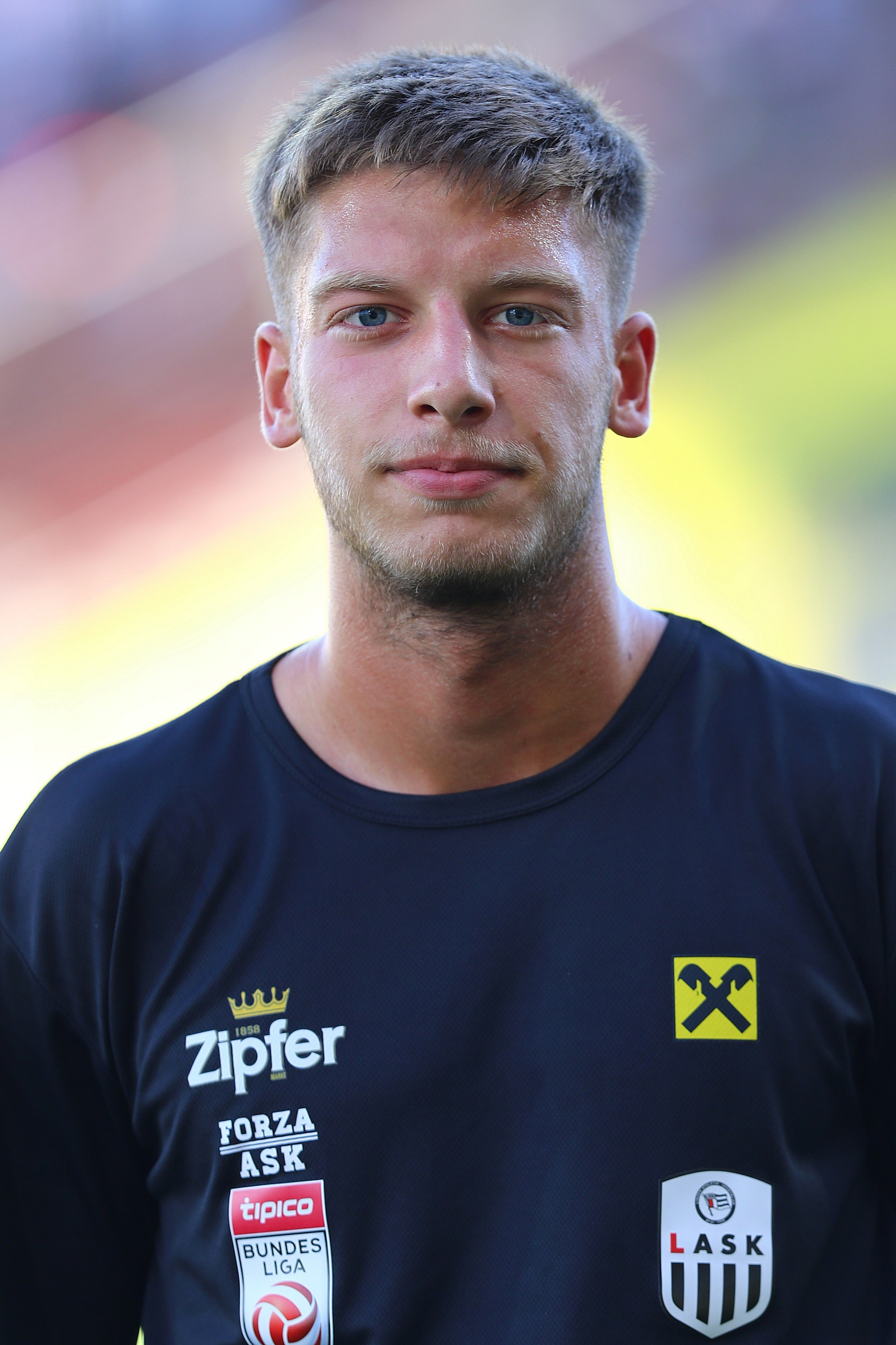 Championshipmatch of the Austrian Bundesliga 2018–19 FC Admira Wacker Mödling (red shirts) vs. LASK Linz (black-white shirts) 0-1 (0-0) at 2018-08-12 in the Bundesstadion Südstadt in Maria Enzersdorf. – The photo shows . Nemanja Celic